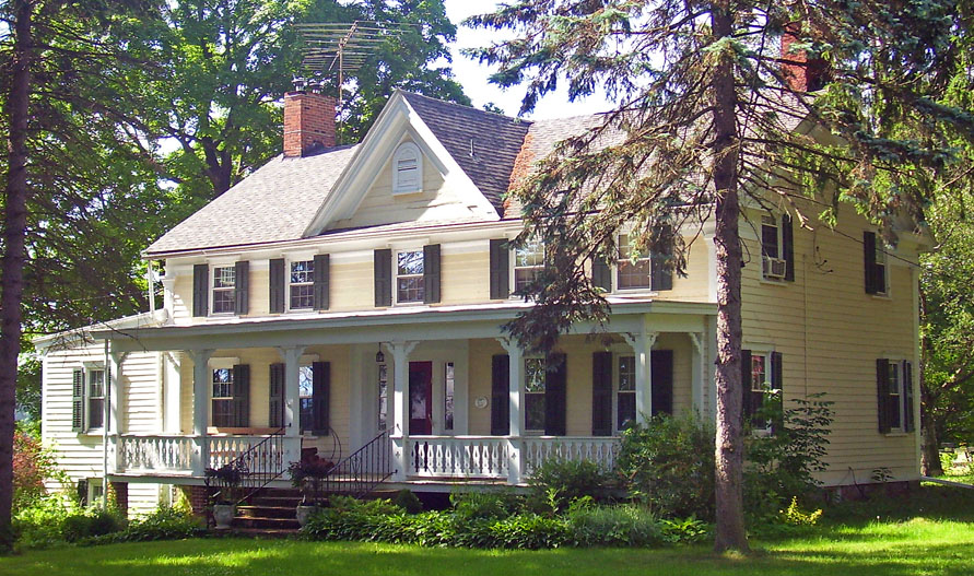 Photographed on 2007-06-11 by Daniel Case